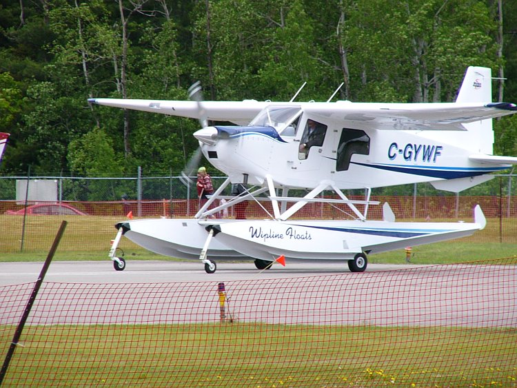 I took this photo of a Found FBA-2C1 BushHawk (C-GYWF) at LaChute Airport